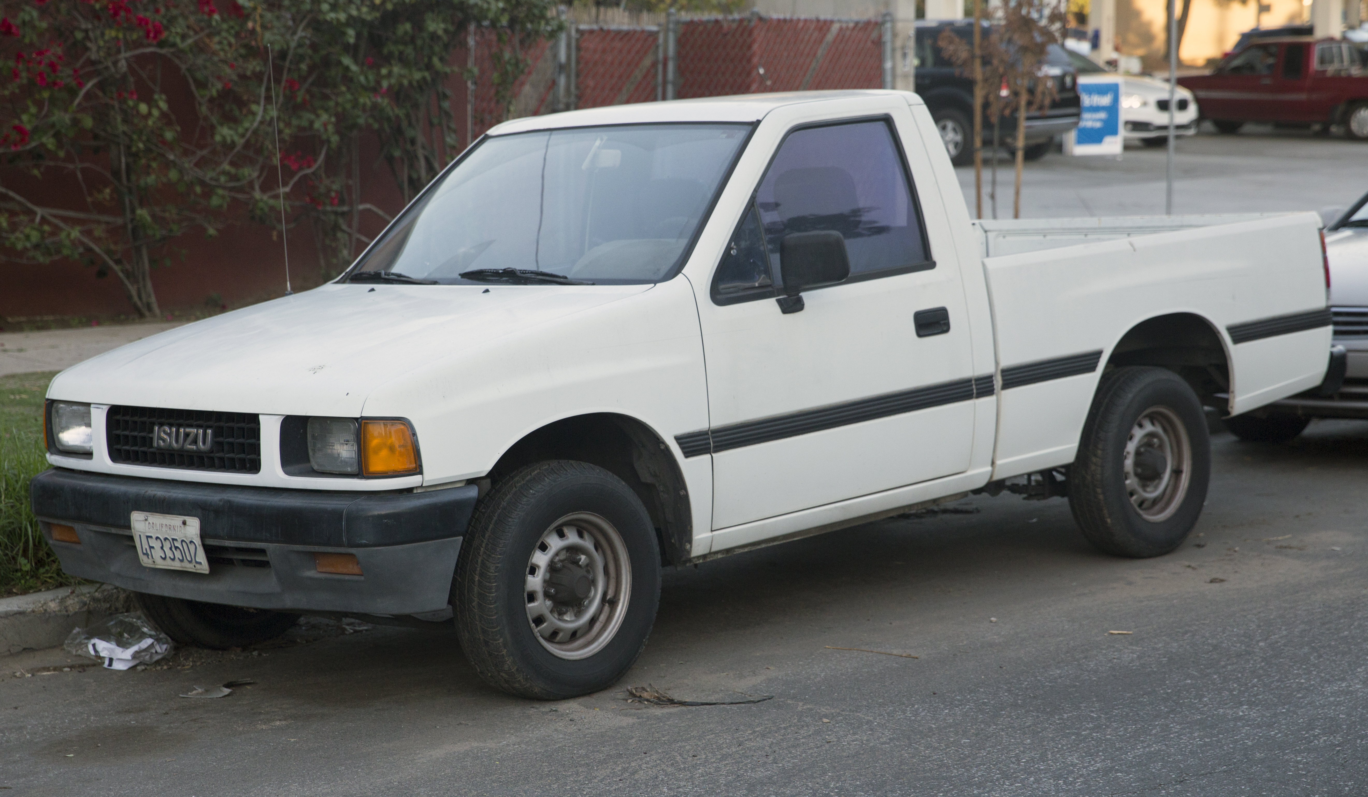 A 1990 Isuzu Pickup 2WD in Echo Park, Los Angeles.